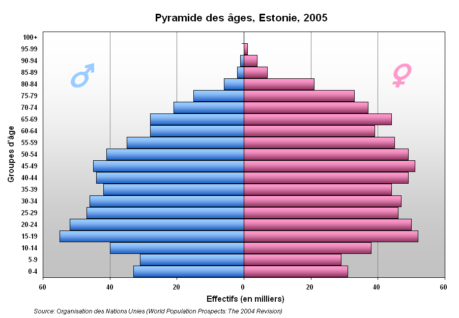 Estonia Population pyramid, 2005